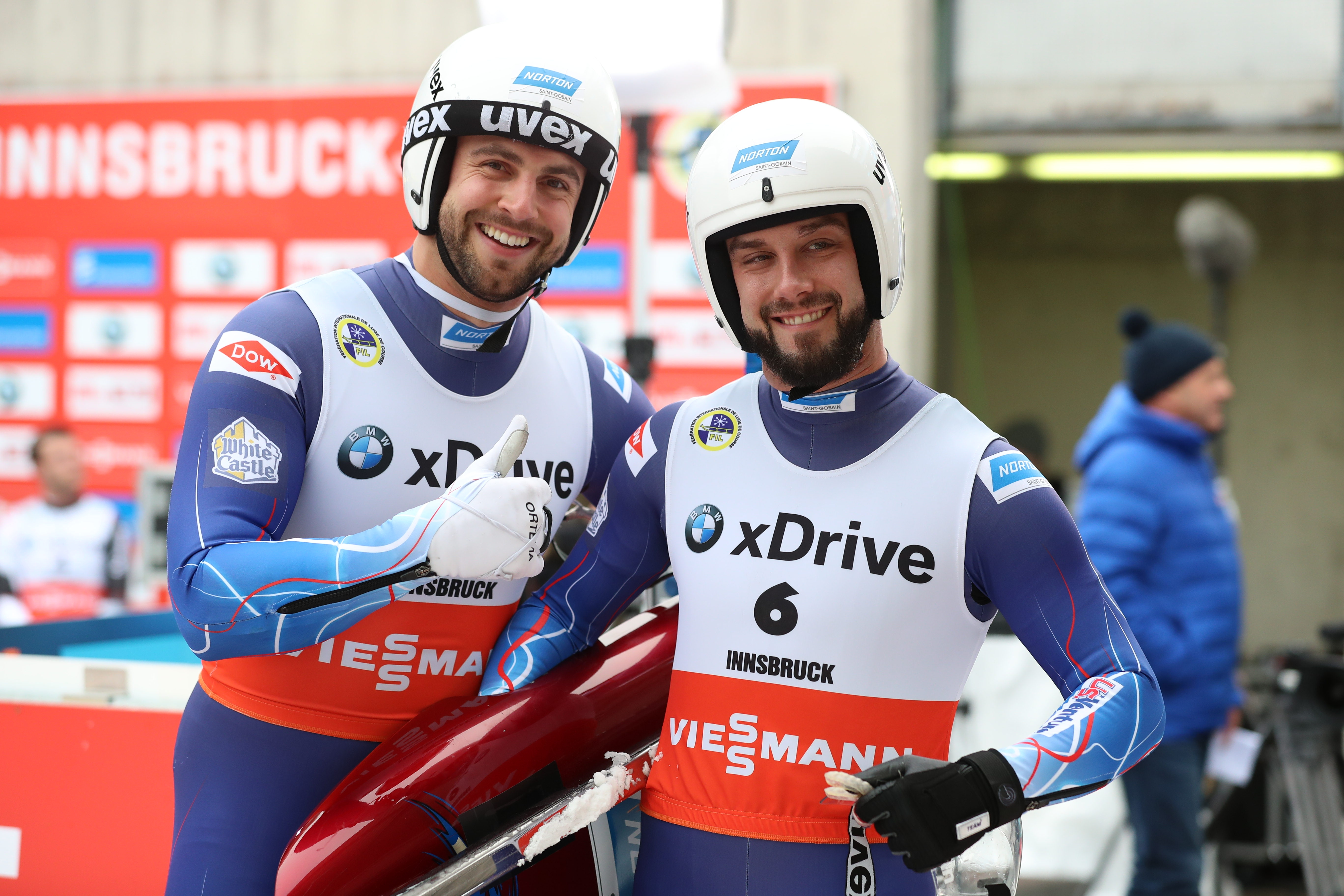 Doubles Sprint World Cup race at the 2018/19 Luge World Cup in Innsbruck-Igls